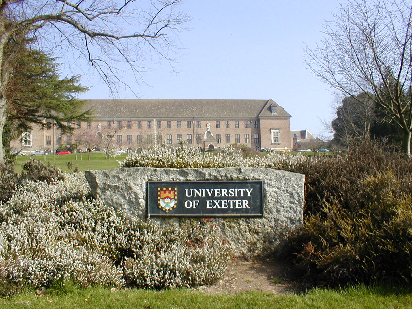 University of Exeter Sign with Washington singer in the background